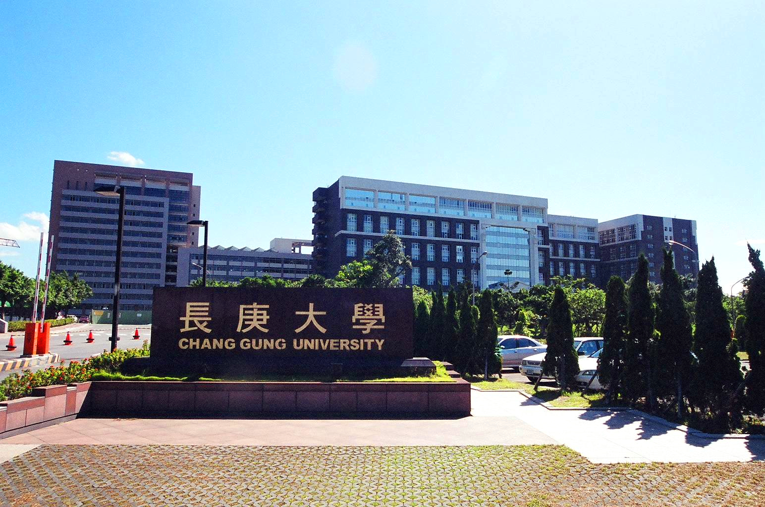 Chang Gung University gate